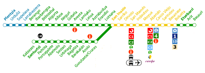 Bilbao Metro network map fare zones